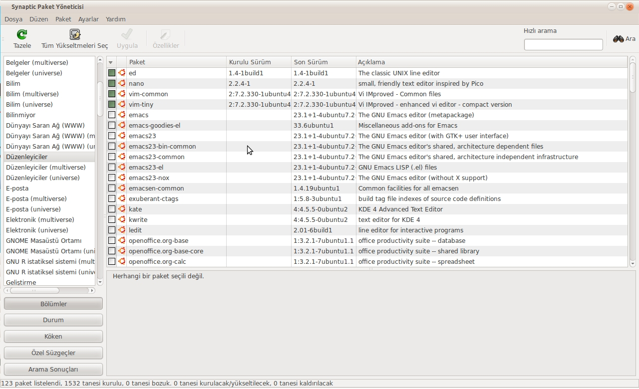 Synaptic program in Turkish